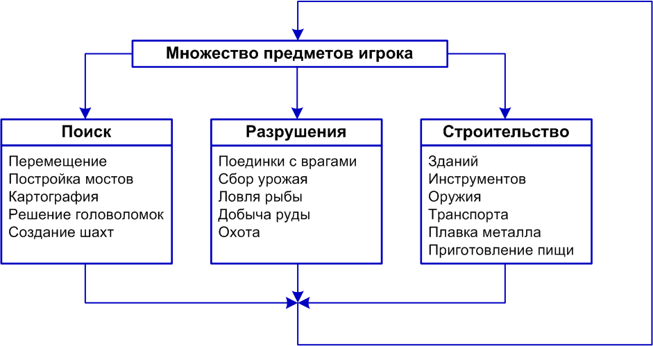 Gameplay loop crafting - examples in russian